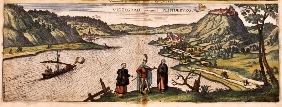 Visegrád by Hoefnagel